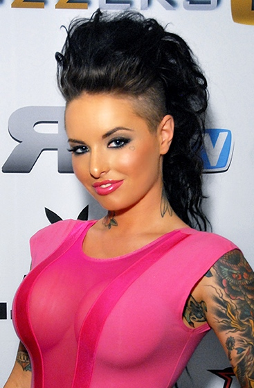 Christy Mack at the AVN Expo, Las Vegas, Nevada, January 2013 - Photo by Glenn Francis of